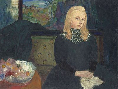 Gabrielle Vien